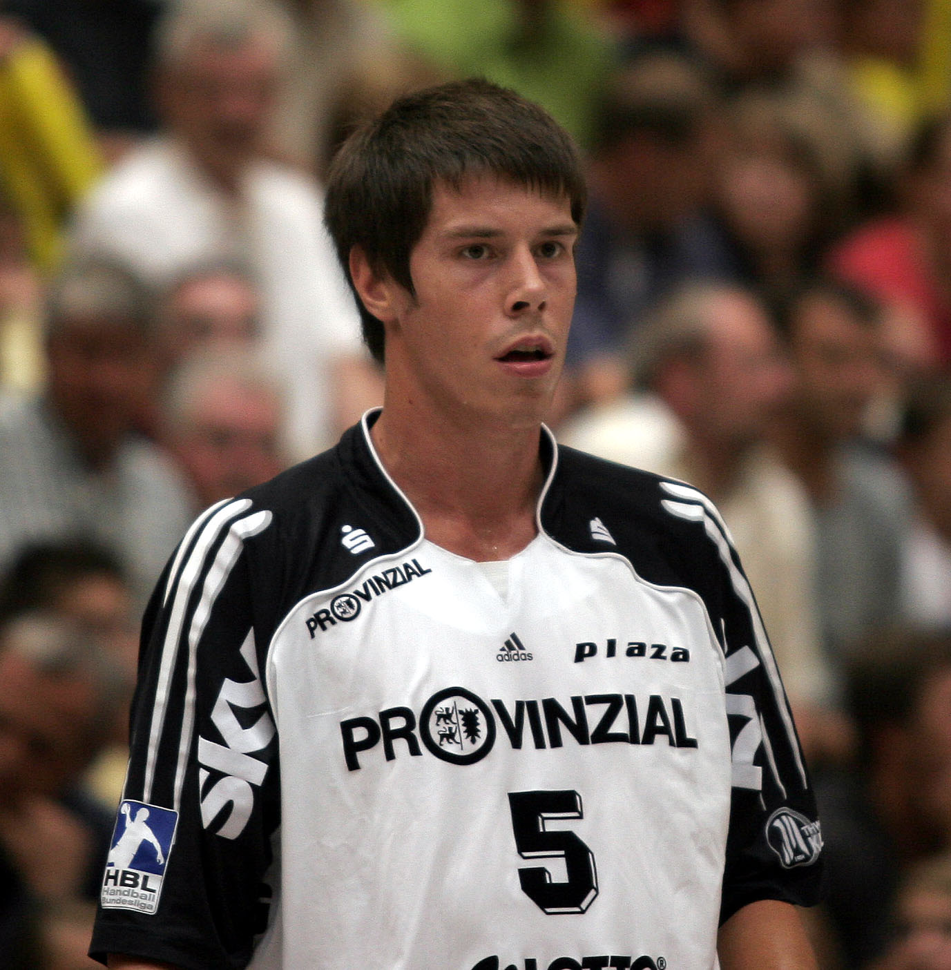 Kim Andersson, Swedish handball player from THW Kiel, during the Schlecker Cup 2007 in Ehingen (Germany)